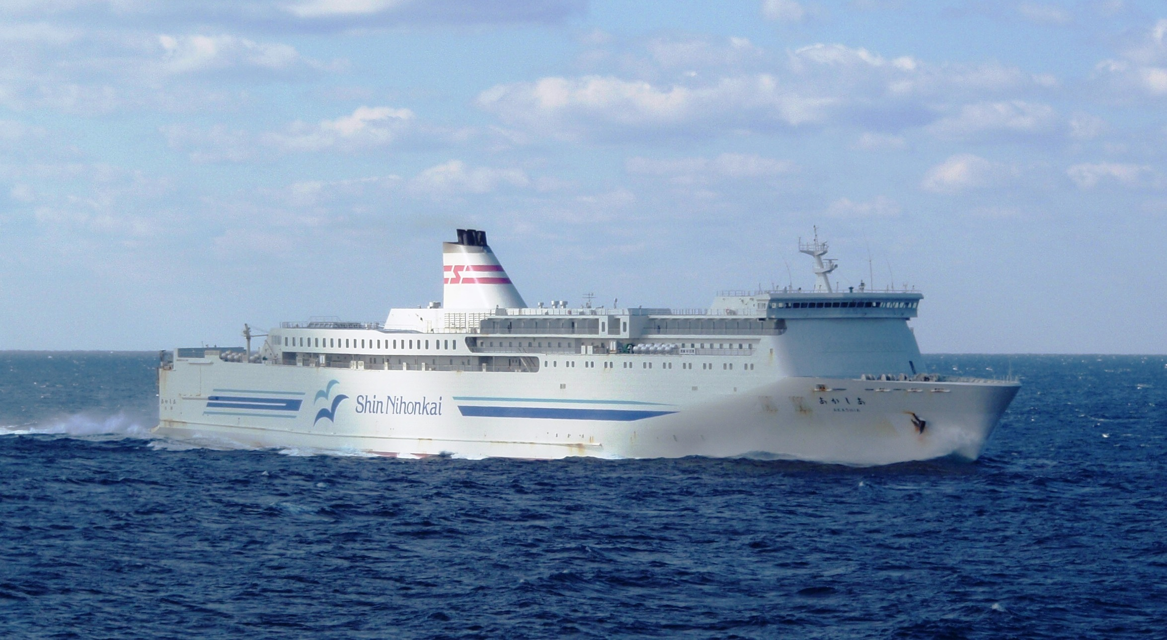 Ferry Acacia